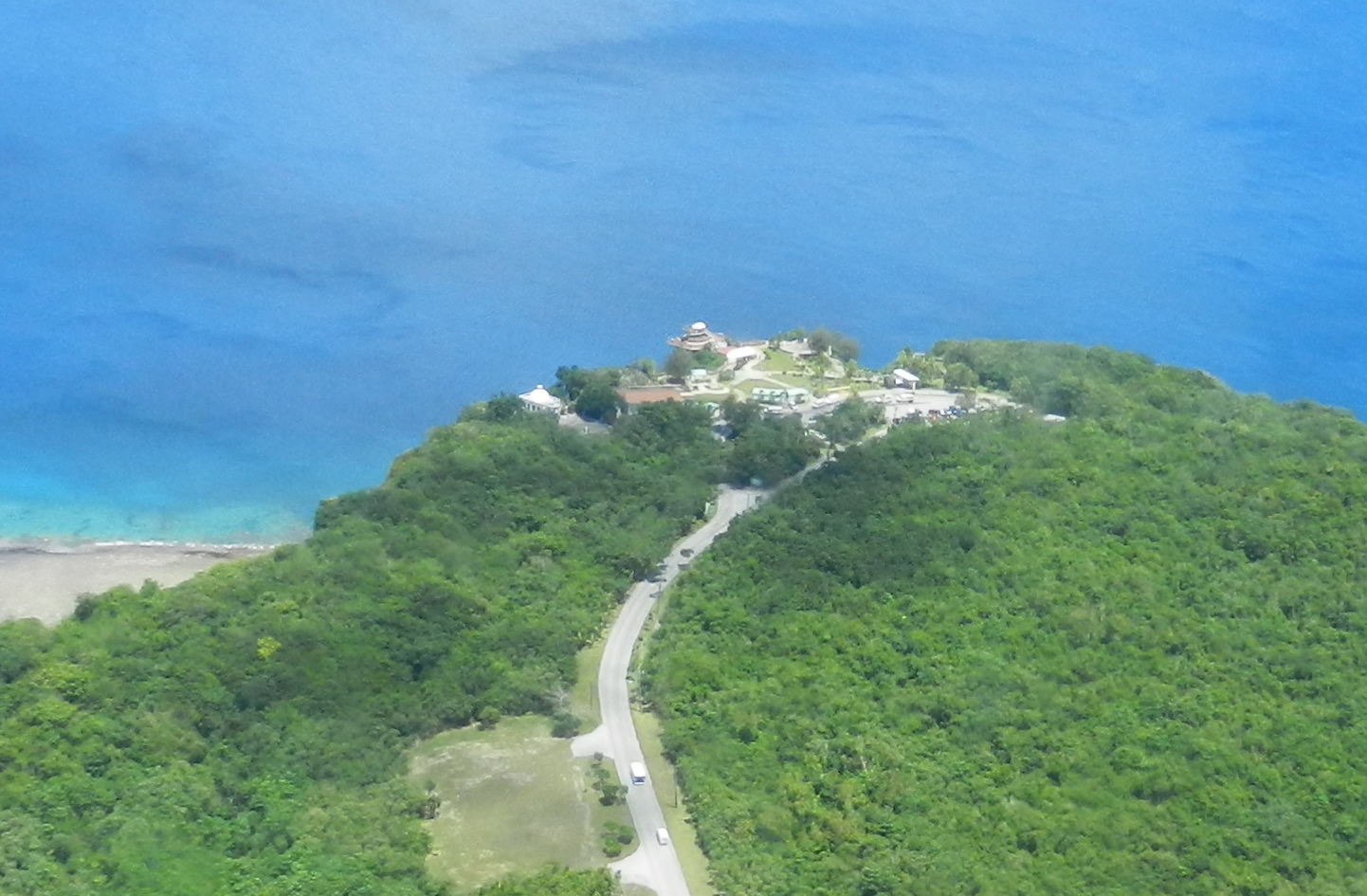 Aerial view of Two Lovers Point (Puntan Dos Amantes) in Dededo, Guam. Crop of File:A street at Guam No.1.JPG